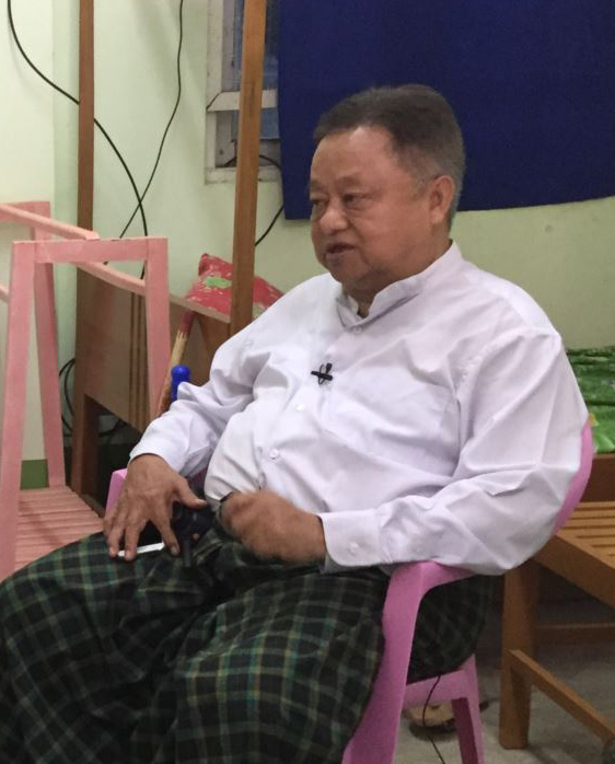 U Win Htein, member of the central executive committee of the National League for Democracy မြန်မာဘာသာ: အမျိုးသားဒီမိုကရေစီအဖွဲ့ချုပ် ဗဟိုအလုပ်အမှုဆောင် ကော်မတီဝင် ဦးဝင်းထိန်